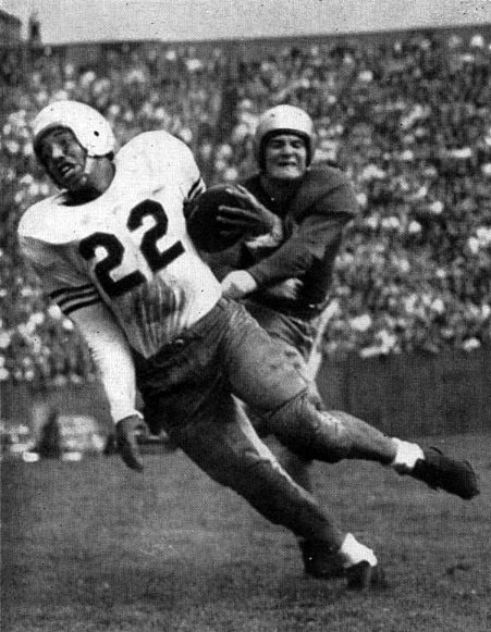 Jimmy Joe Robinson carries the ball for the Pitt Panthers against Notre Dame in 1948.